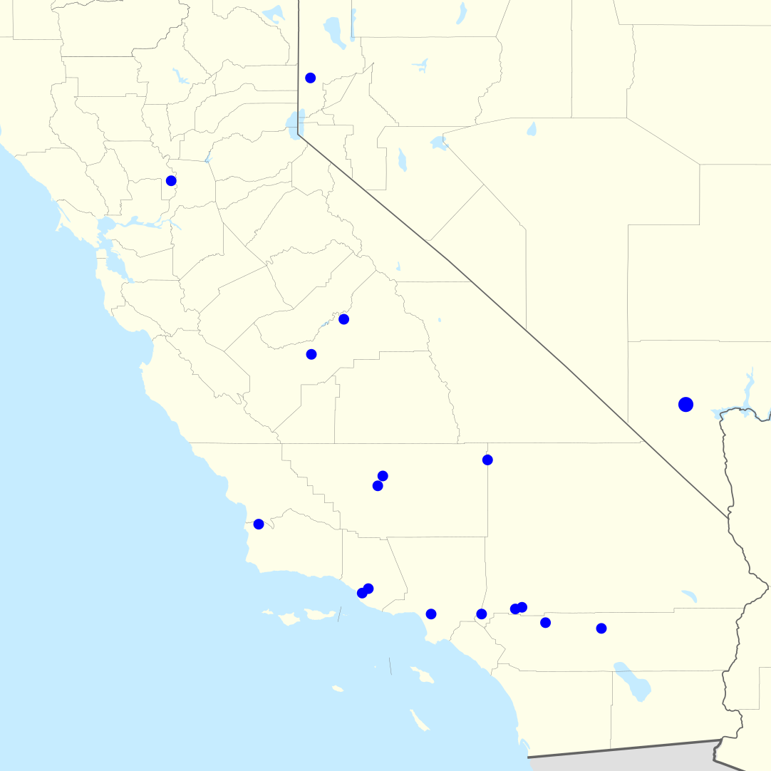 Los Angeles Rams Radio Network: map of radio affiliates.